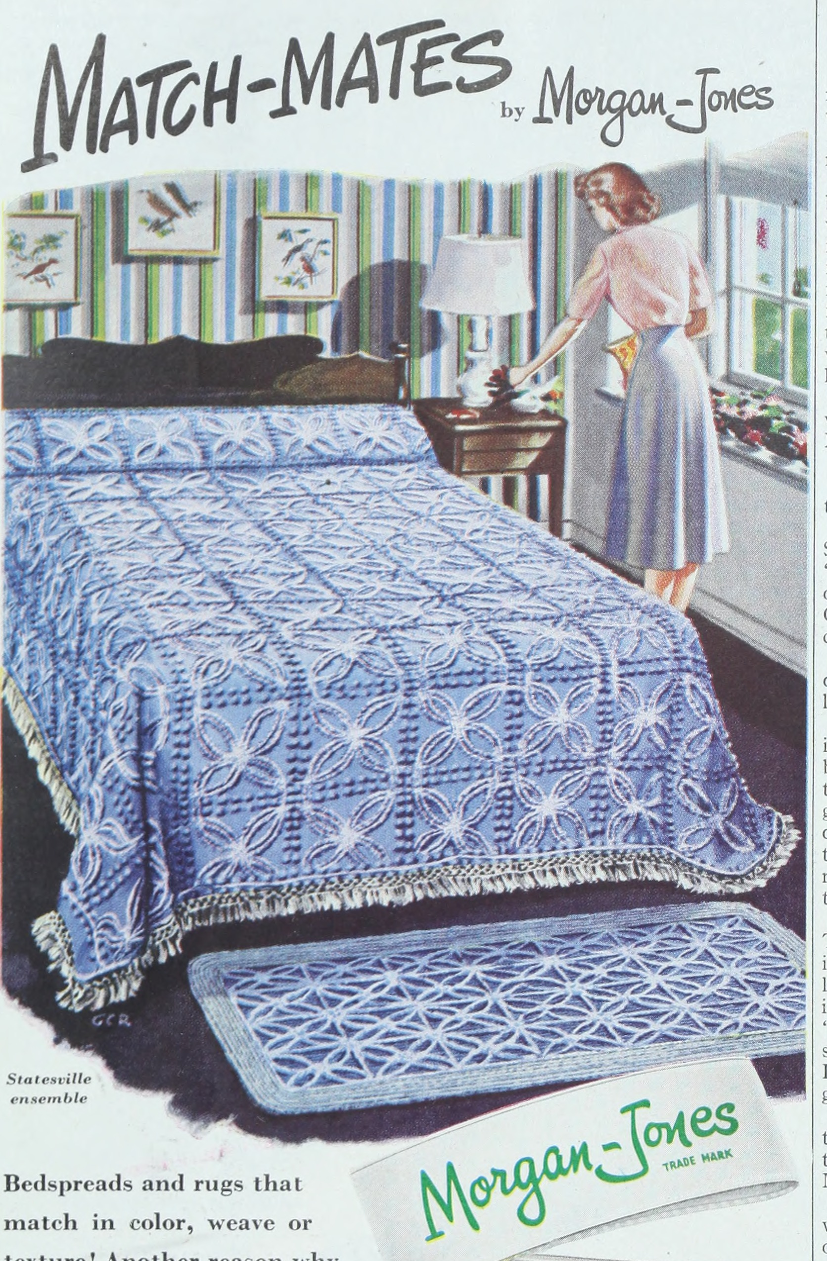 Title: The Ladies' home journal Year: 1889 (1880s) Authors: Wyeth, N. C. (Newell Convers), 1882-1945 Subjects: Women's periodicals Janice Bluestein Longone Culinary Archive Publisher: Philadelphia : (s.n.) Text Appearing Before Image: PCTCR PA makes -^VV**^bra Figure problem? For FREE booklet, Your New Guide to Bust line Beauty,write Dept. J-7, Peter Pan, 312 Fifth Avenue, New York 1, N. Y. 3204 6398 S-1ilf»«t 162 I.MINIS HOME JOURNAL Text Appearing After Image: Stateavilleensemble Bedspreads and rugs thatmatch in color, weave ortexture! Another reason whythe Morgan-Jones label meansYours for a lovely home.